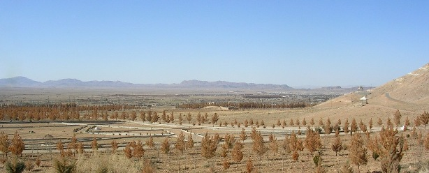 West-south view of Qayen from Jungle Park